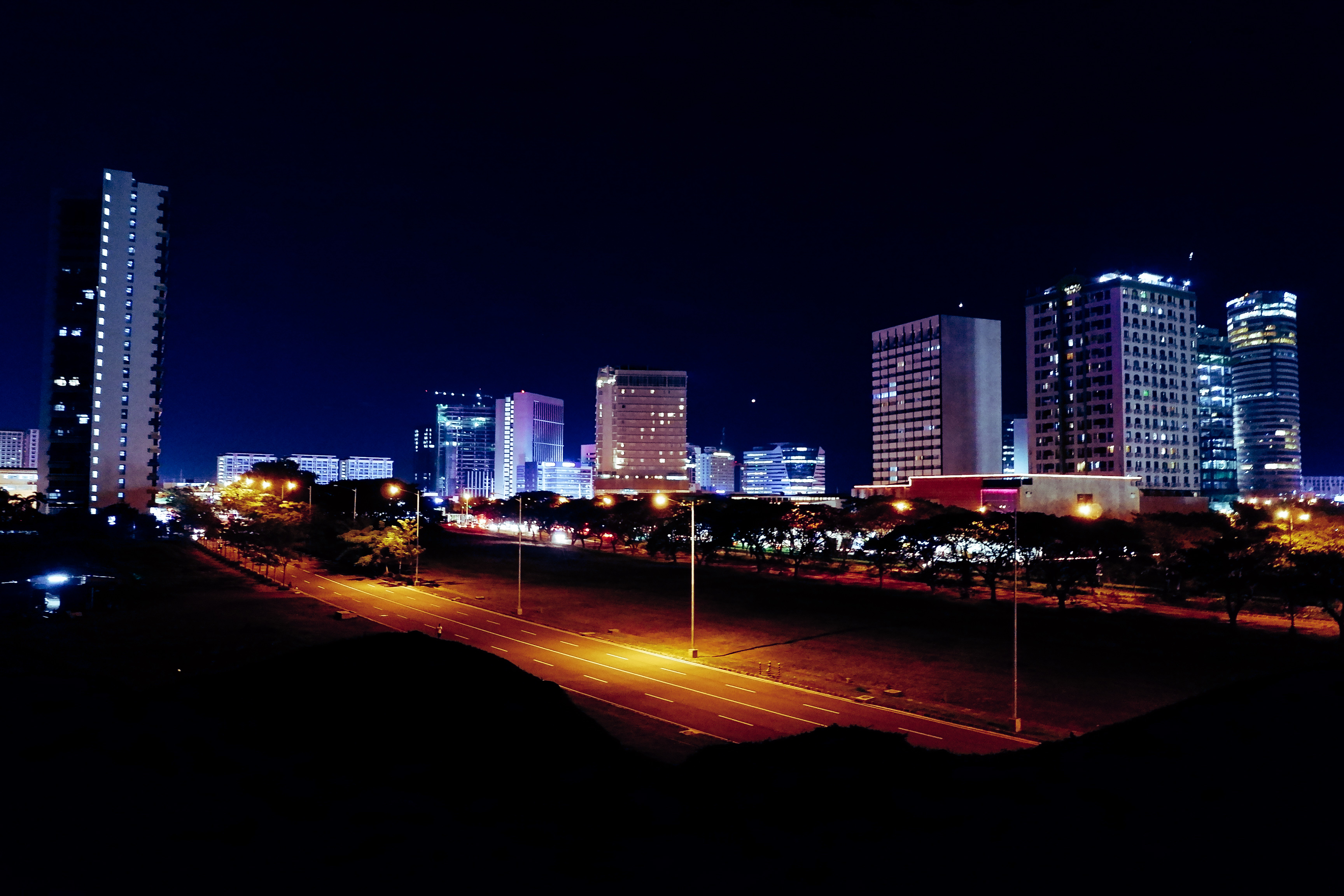 FIlinvest City as seen from Commerce Avenue at Alabang, Muntinlupa City